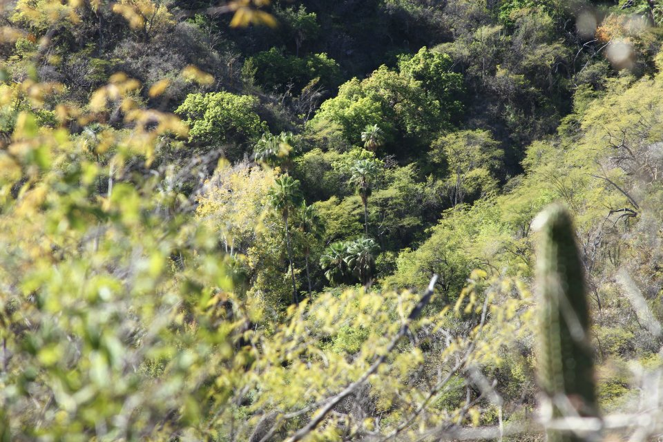 Foto de la vegetación de la Sierra de la Laguna donde se aprecian cactus y árboles y pino y encino.